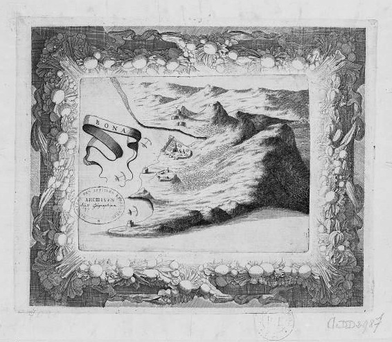 Title : Bona Publisher : [s.n.] Date of publication : 1700-1799 Subject : Annaba -- Vues Type : image fixe,estampe Language : French Format : 1 est. ; 26 x 30 cm Format : image/jpeg Copyright : domaine public Identifier : ark:/12148/btv1b7759366j Source : Bibliothèque nationale de France, département Cartes et plans, CPL GE DD-2987 (8020) Relation : Notice de recueil : Relation : Appartient à : Collection d'Anville ; 08020 Relation : Coverage : Algérie Provenance : bnf.fr